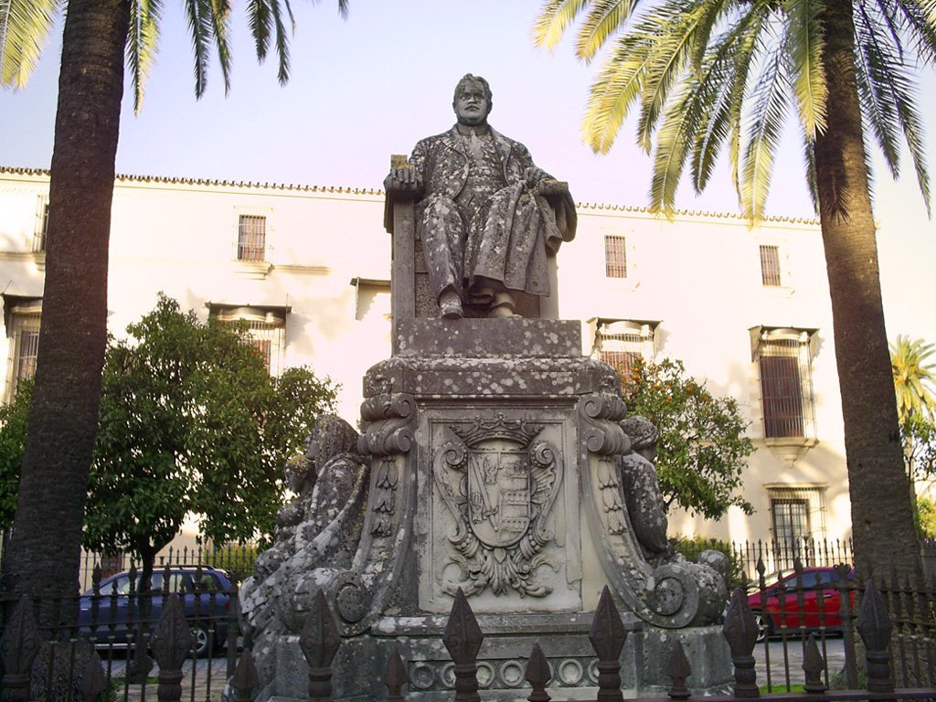 Duke of Domecq statue, Domecq sherry company founder Jerez de la Frontera, Andalusia (Spain).